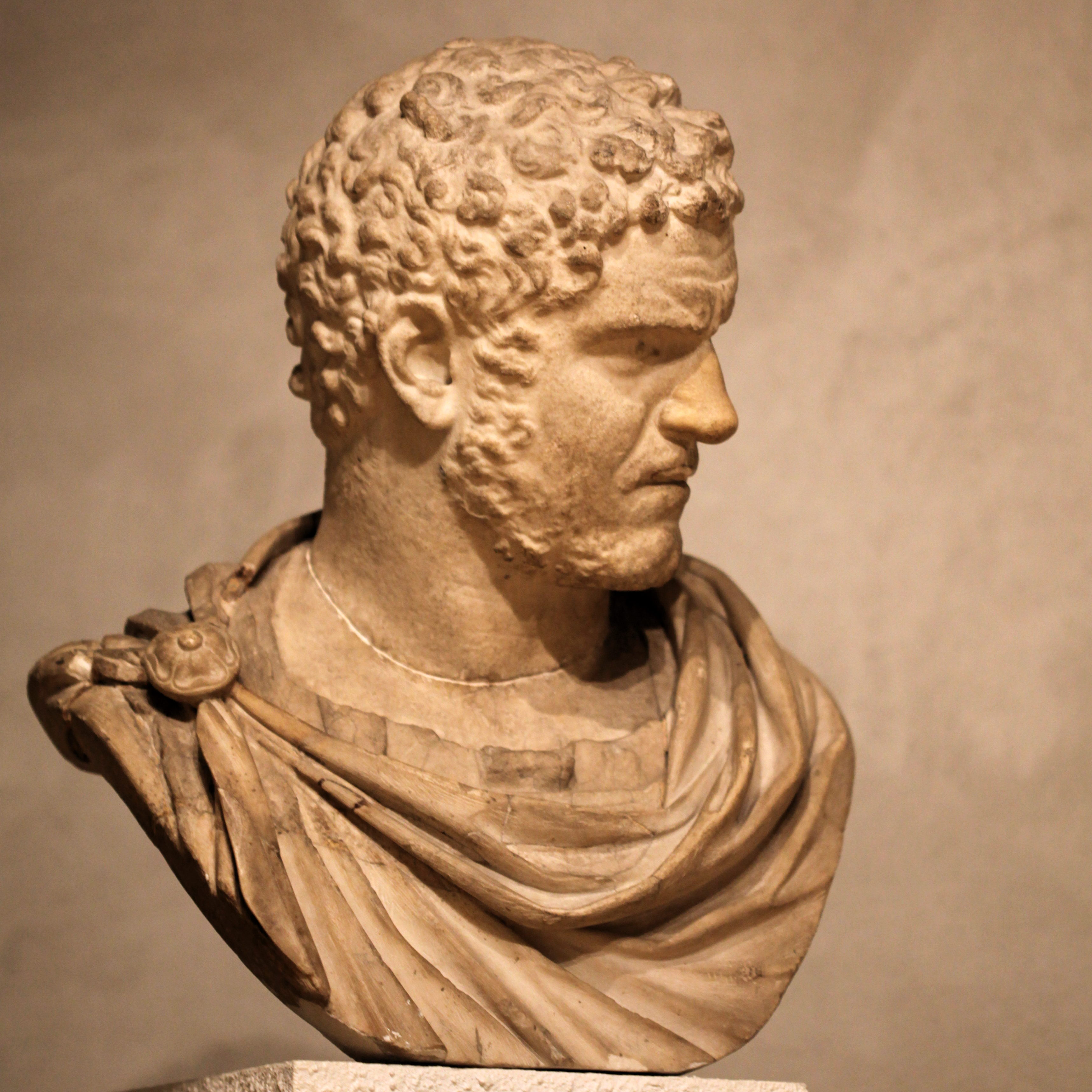 Bust of Emperor Caracalla. Marble. Sent by the State (Musée du Louvre). On display at the Musée gallo-romain de Fourvière, Lyon.